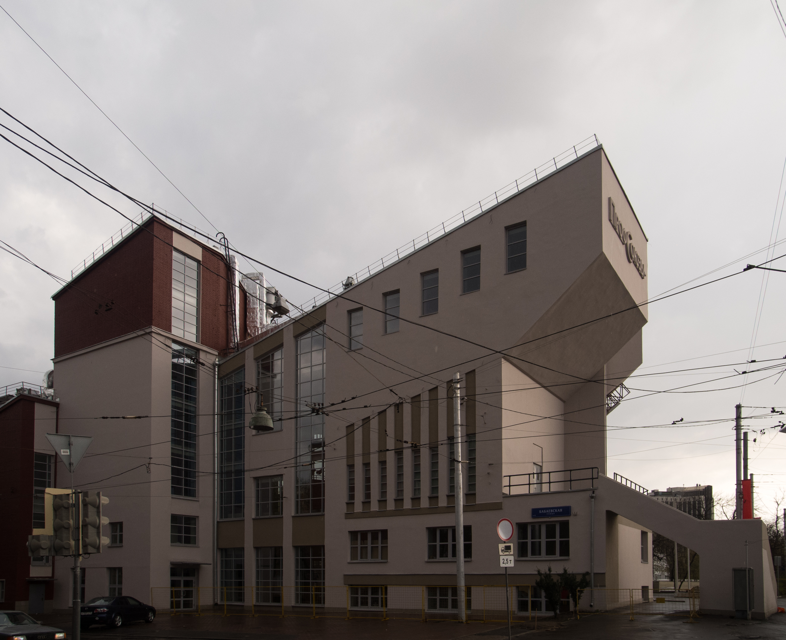 Original windows restored during the 2014-2015 restoration of the Rusakov Workers' Club